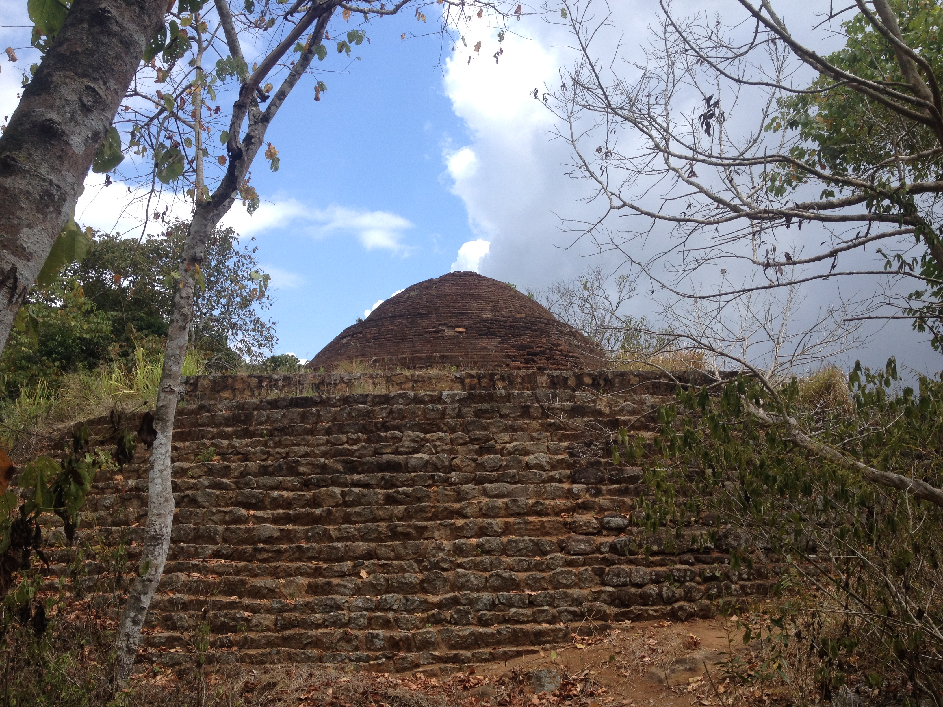 Nikasala Nuwara Tomb of King Vijaya at Kanduboda-Moragane, Sri Lanka.